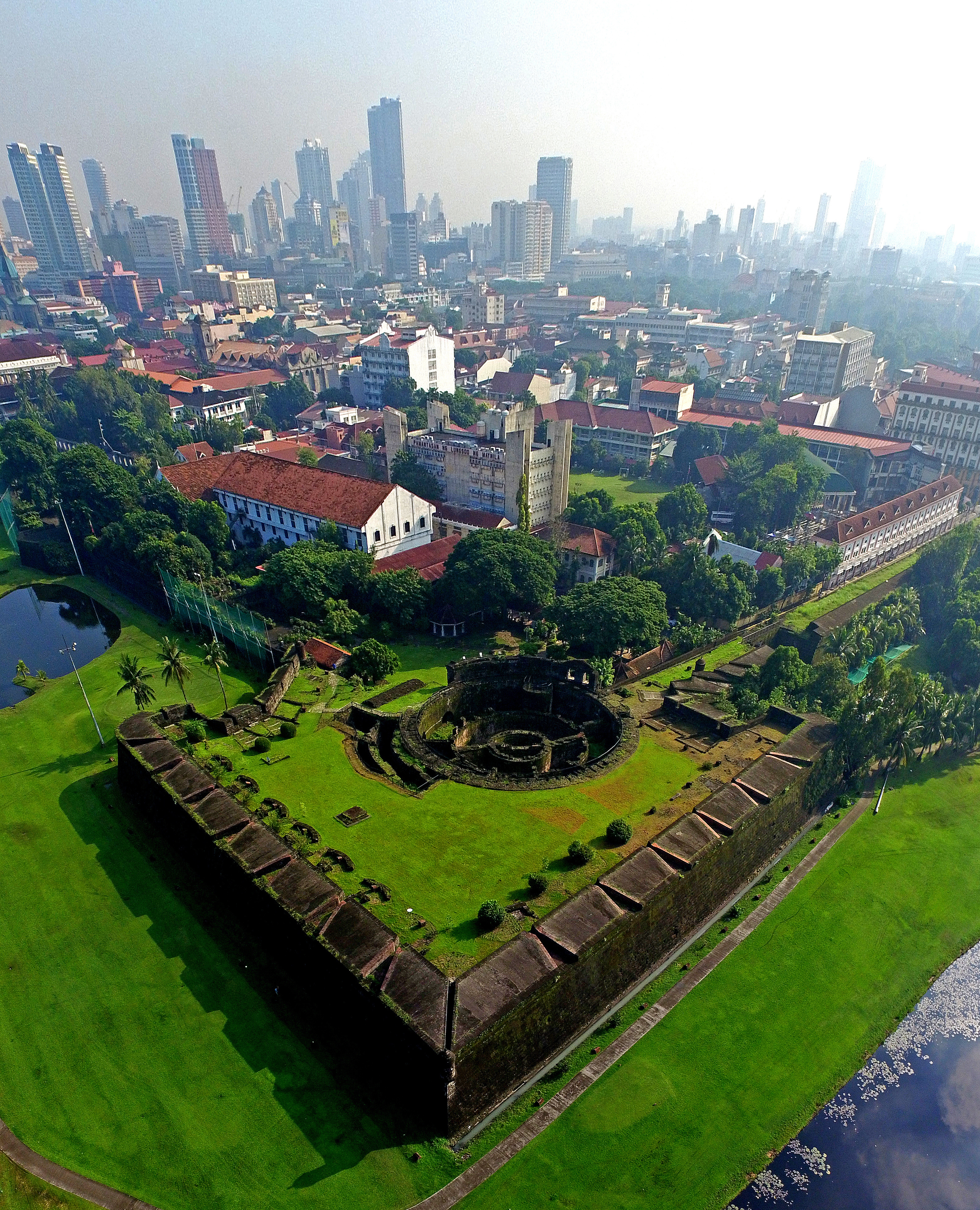 Aerial view of the San Diego portion in Intramuros